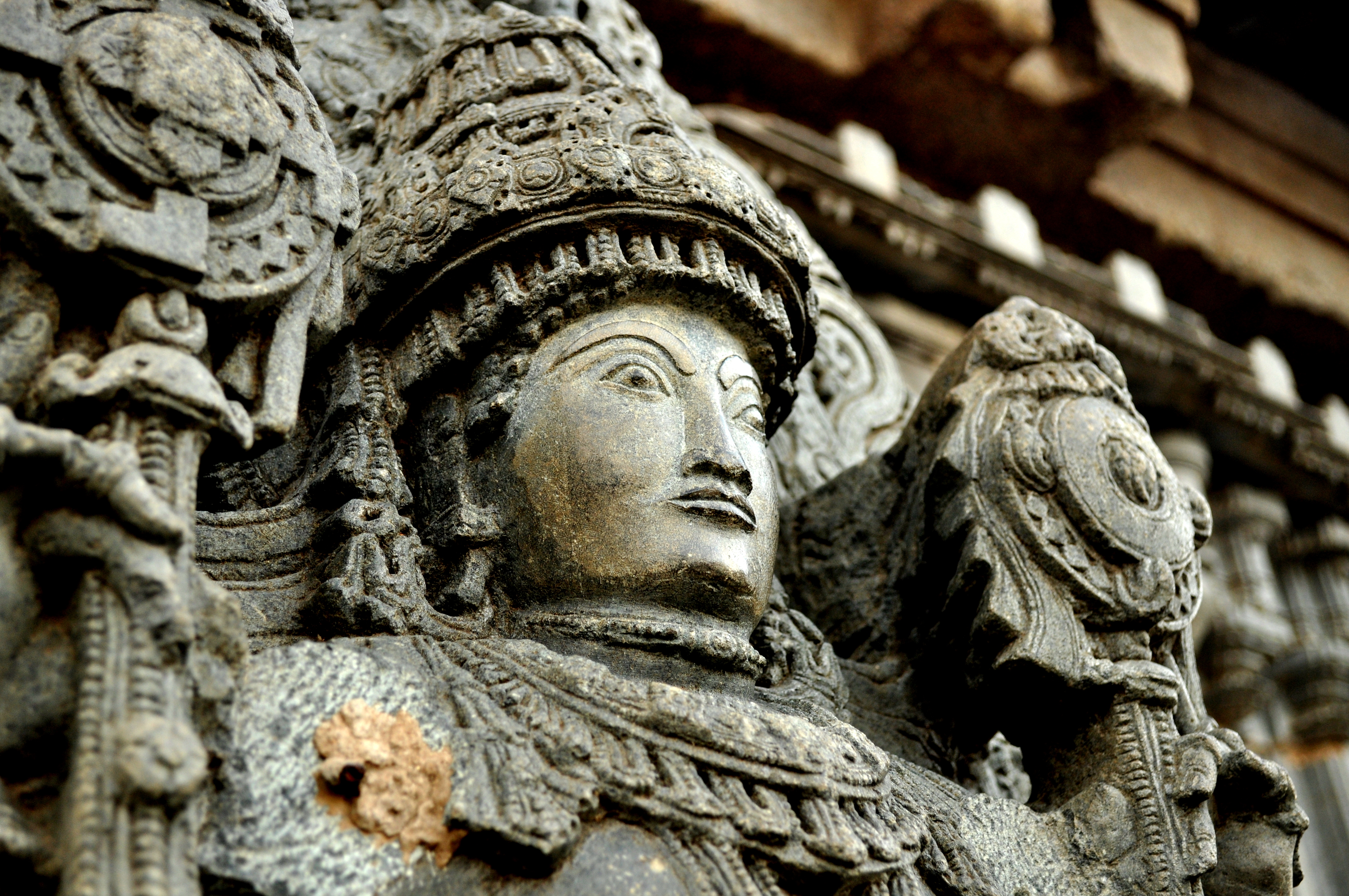 Vishnu sculpture,Somnathpur, Karnataka